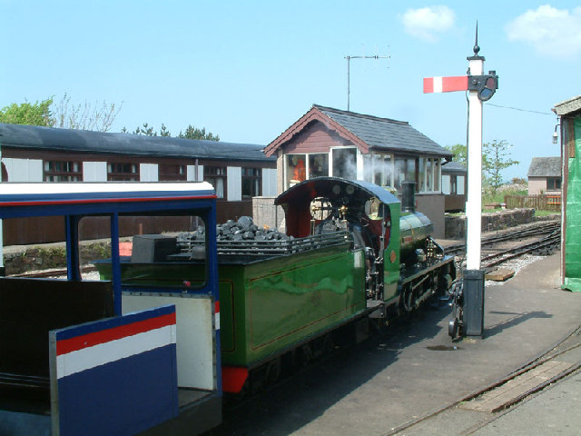 Ravenglass and Eskdale Railway. The locomotive River Irt waits to take its train from Ravenglass station.